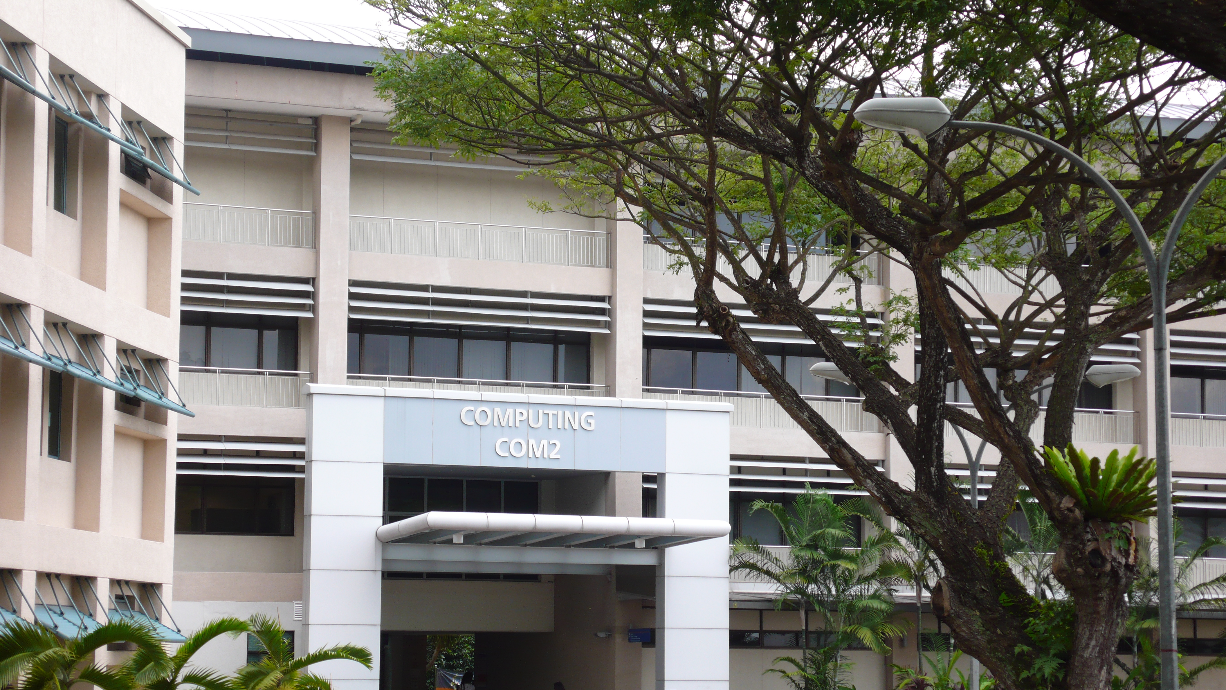 COM 2 Building , NUS Business School, National University of Singapore.